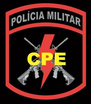 ROTAM-PMGO Coat of Arms